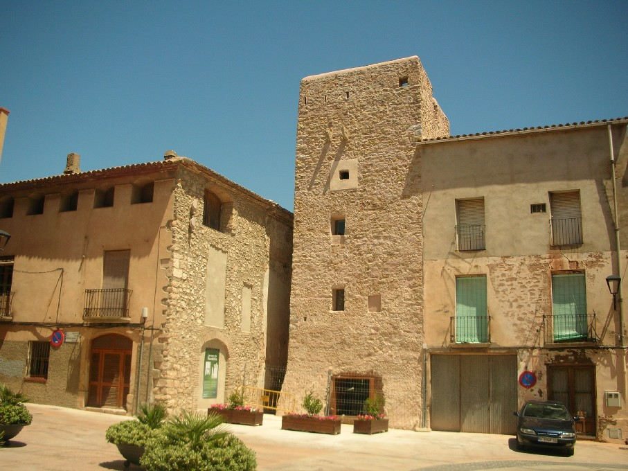 Vandellòs town, an ancient house with tower